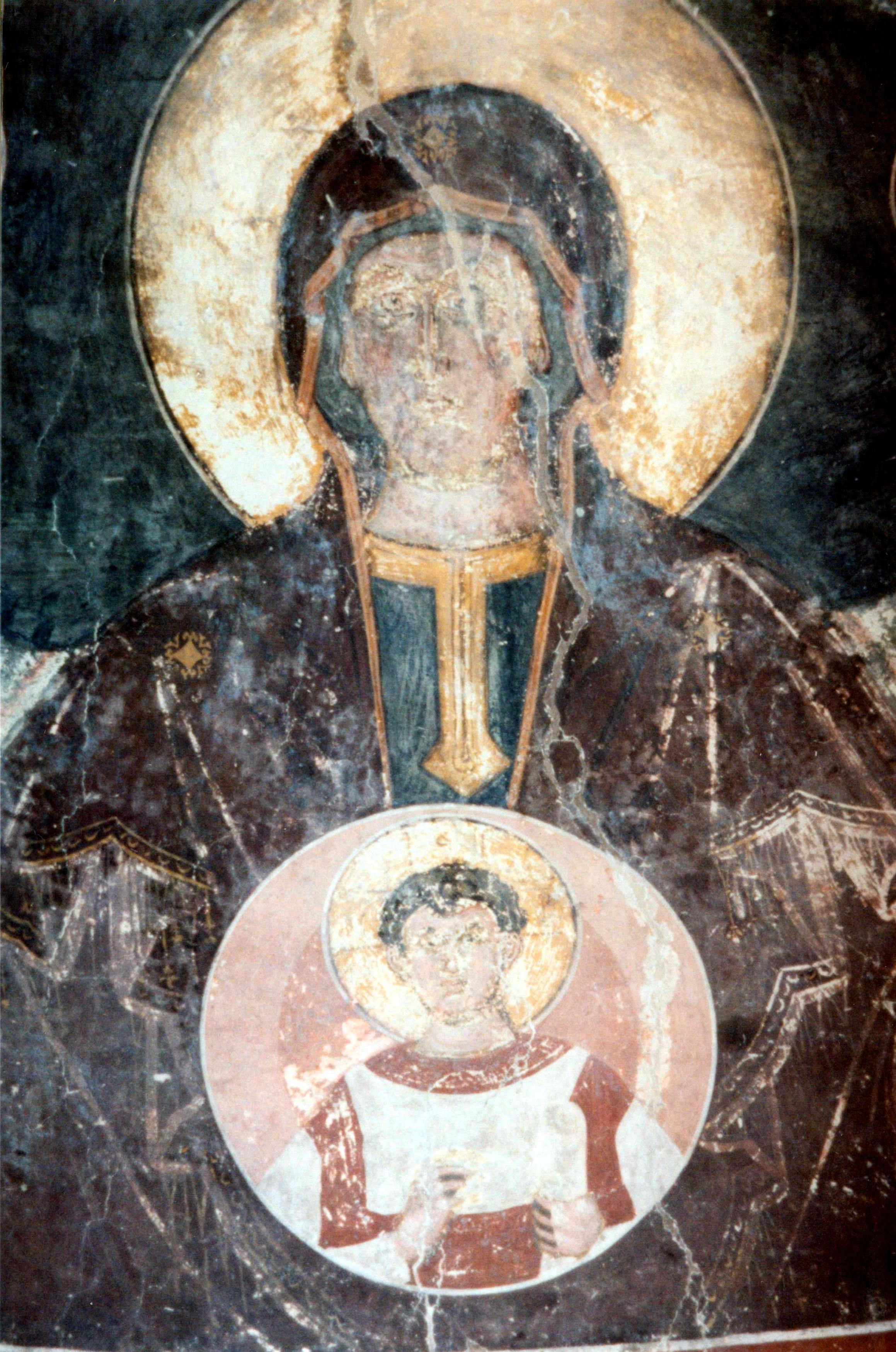 Saint Mary Bolnichka Fresco